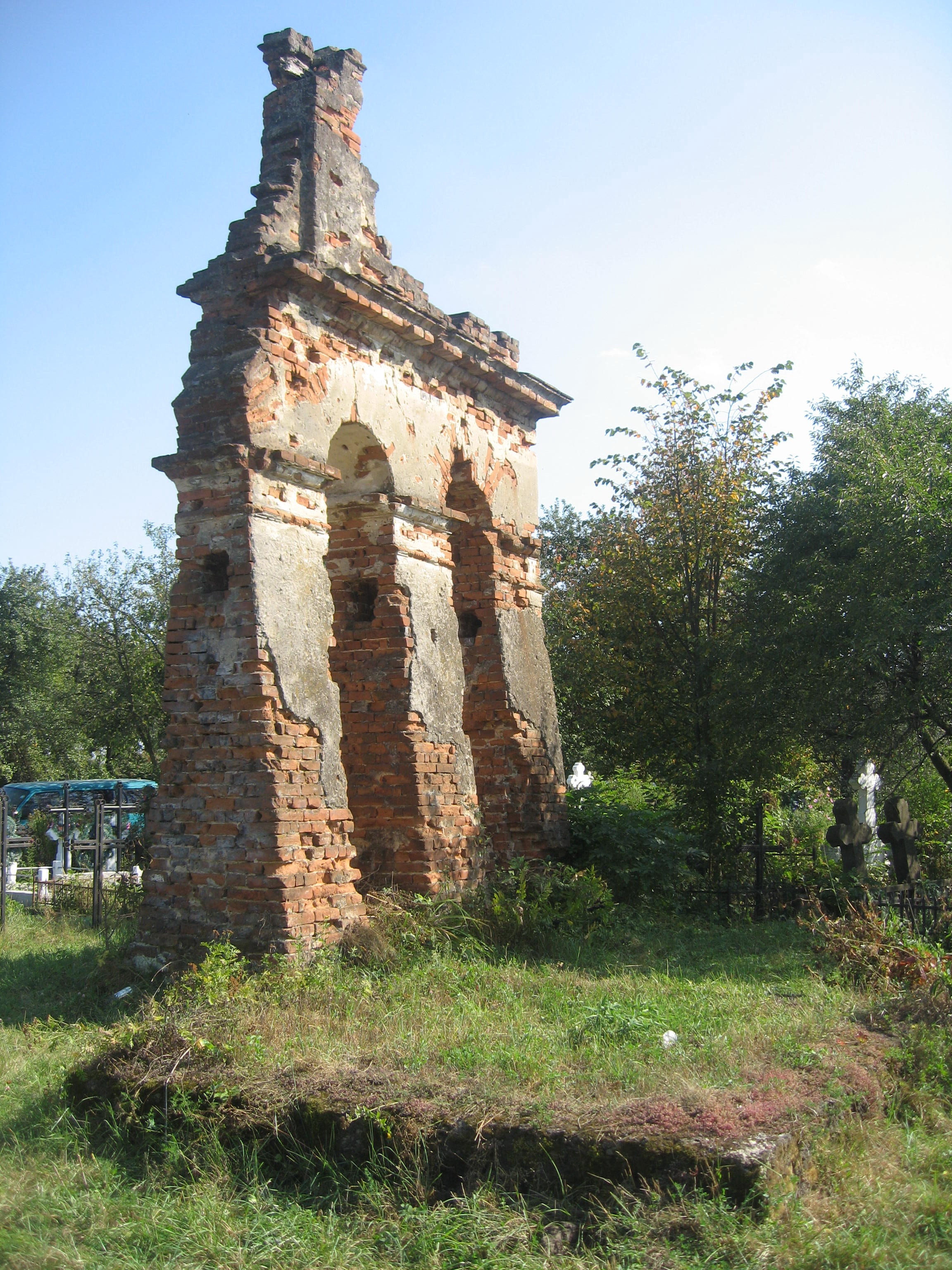 Biserica Sfântul Procopie din Bădeuţi